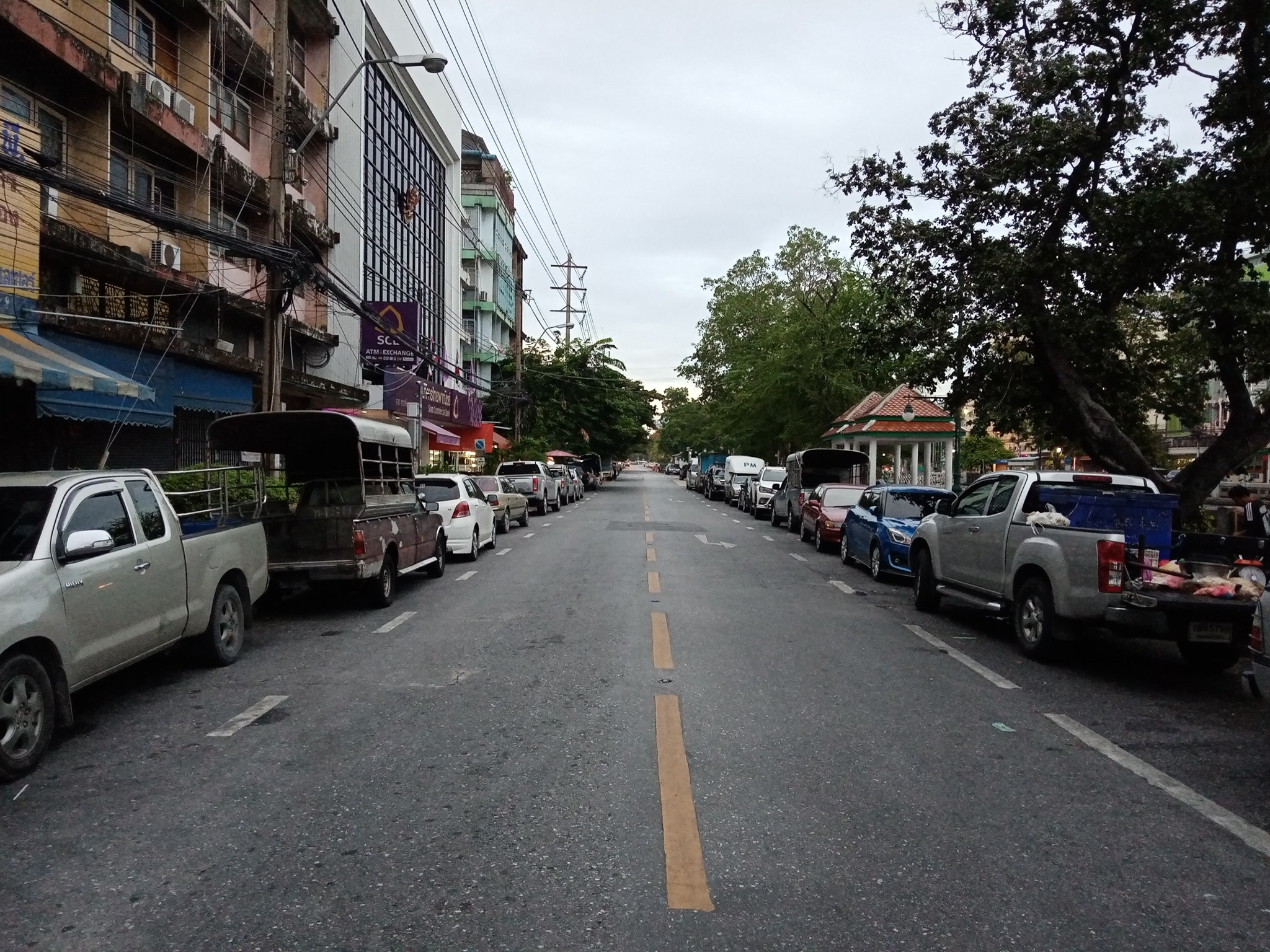 Luk Luang Rd.